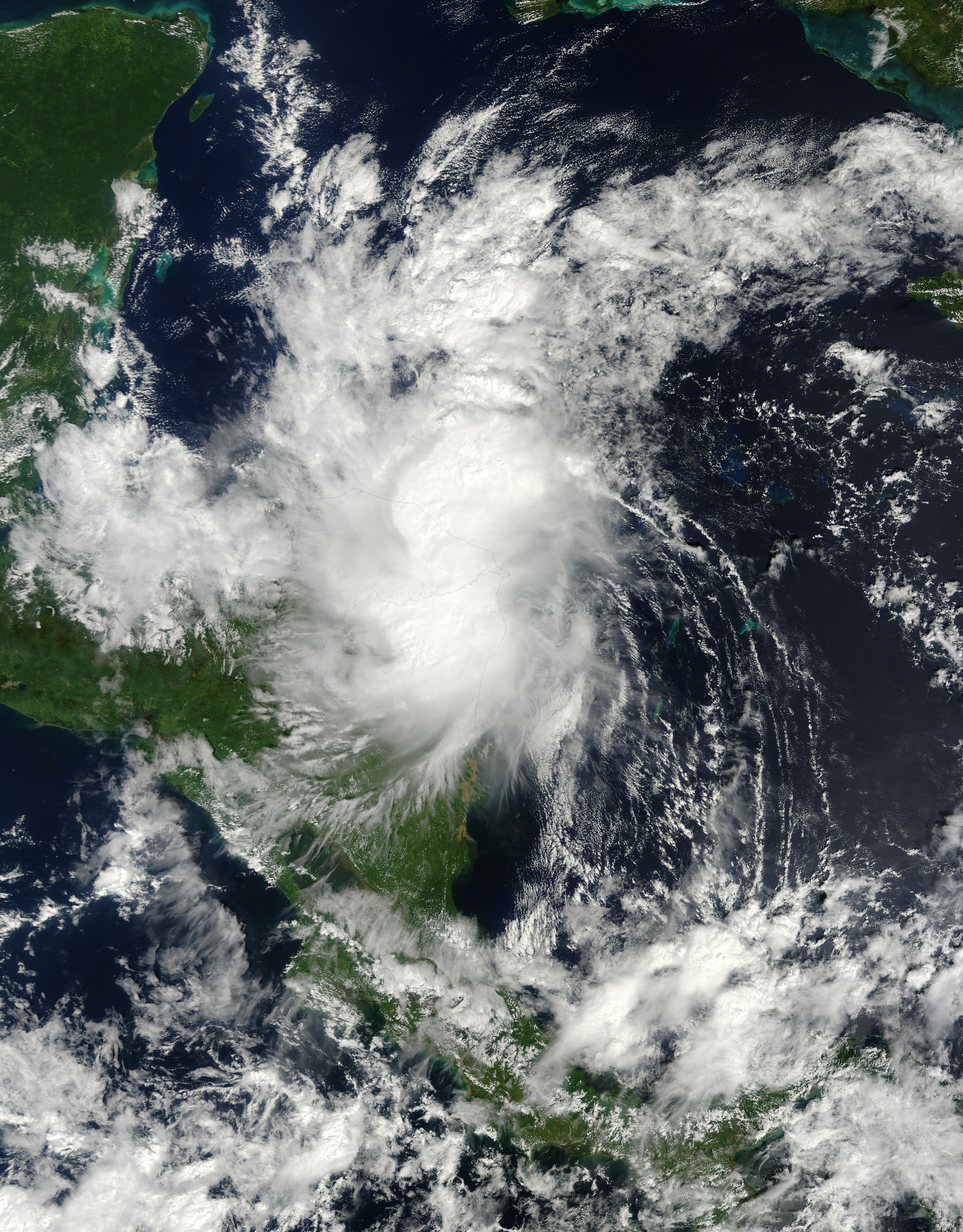 Tropical Storm Hanna on October 27, 2014 over northeastern Nicaragua